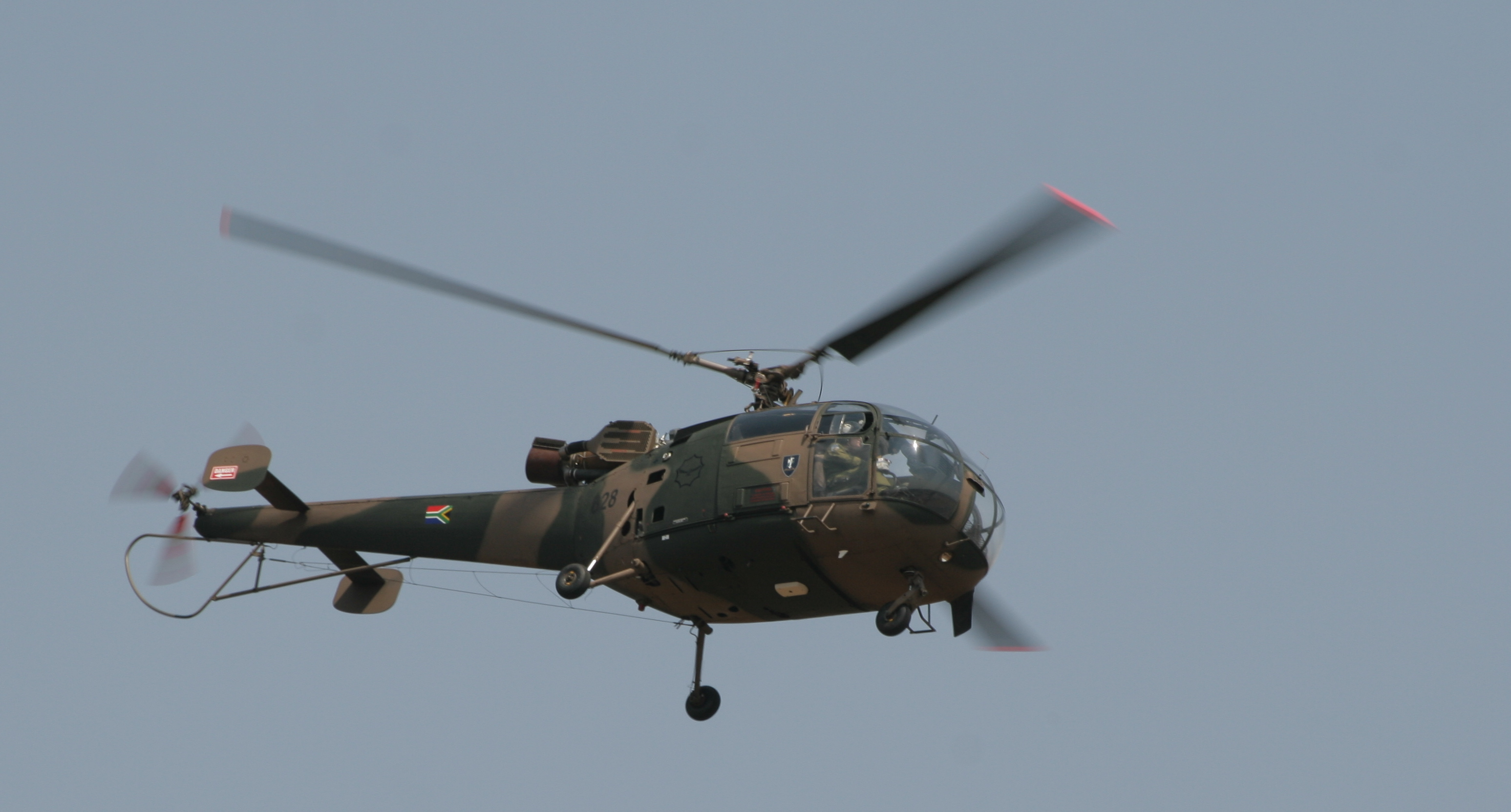 South African Air Force Alouette III no. 628